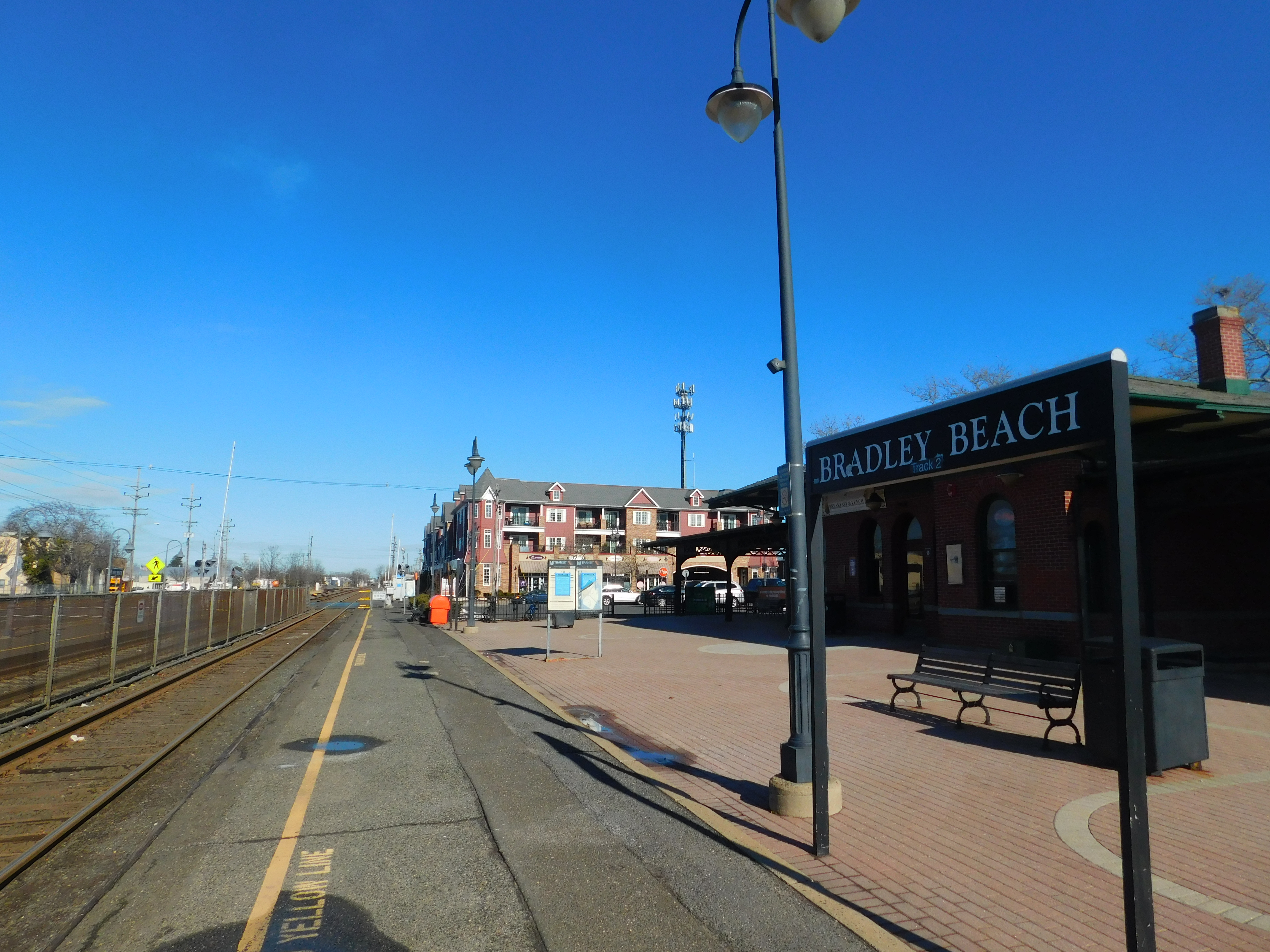 Bradley Beach station in January 2018.